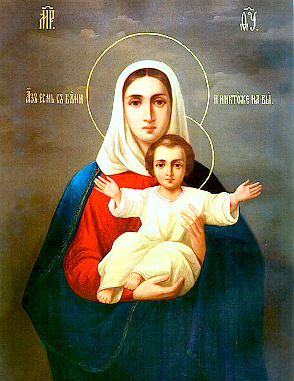 The Russian icon of the Mother of God "I am with you and no one is to you." It was written in the Leushinsky John the Baptist Convent by personal order of St. John of Kronstadt. Currently, he is in the St. George’s Convent in the village of Danevka, Chernihiv Oblast.